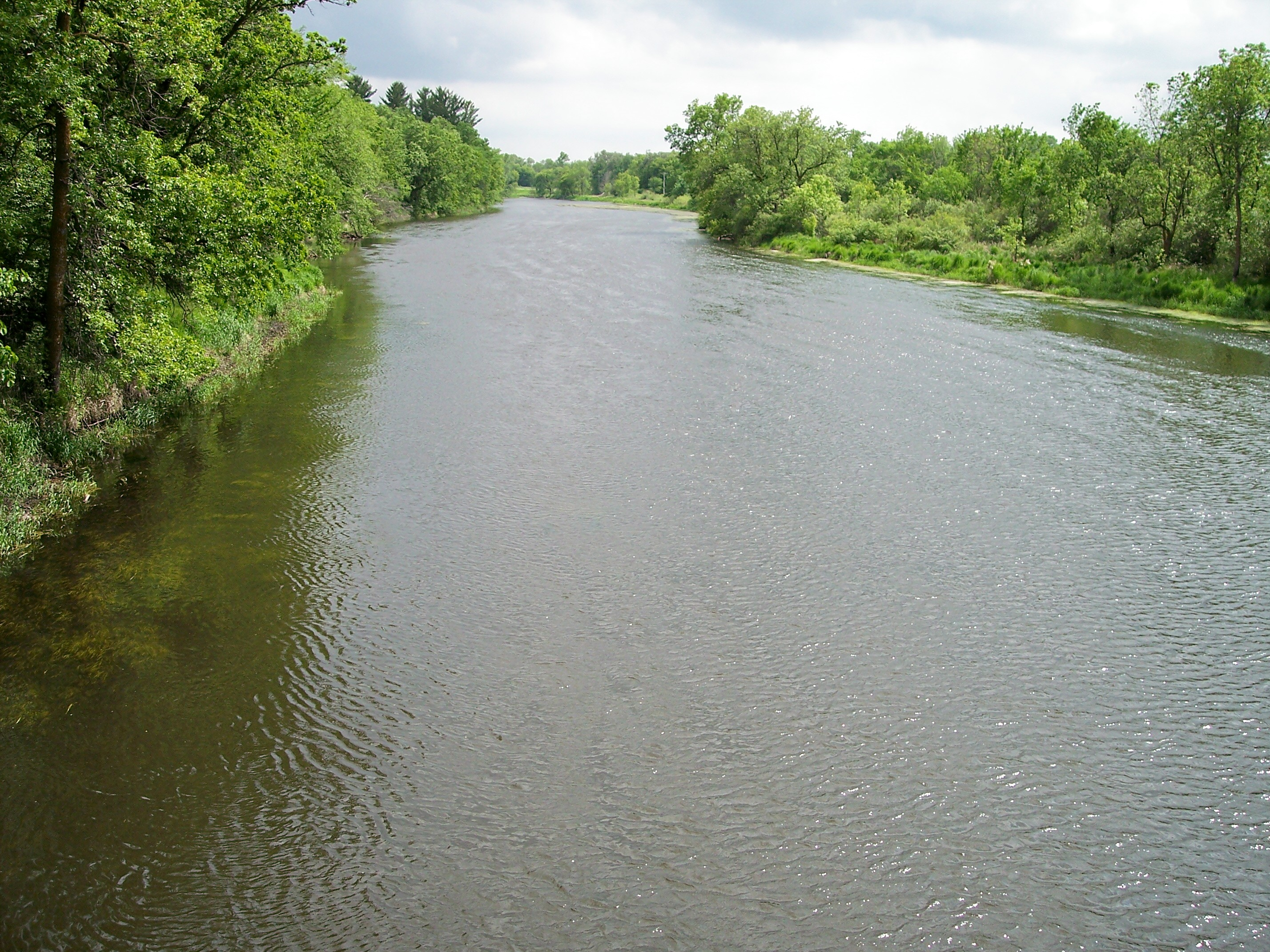 The Long Prairie River as viewed from 400th Street, a rural road in Moran Township, Minnesota.